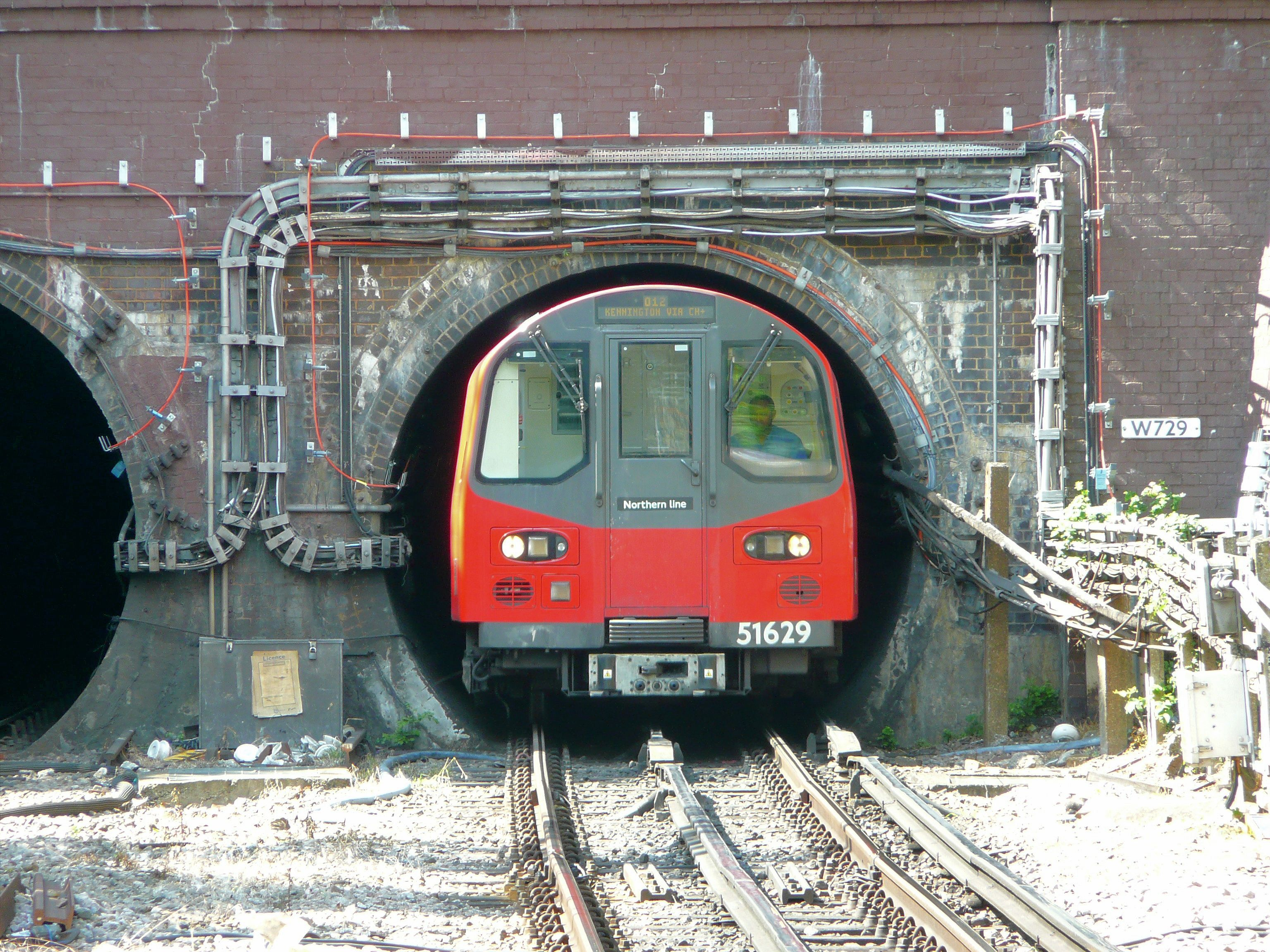 The nickname "Tube" comes from the almost circular tube-like tunnels through which the small profile trains travel. This photograph shows a southbound Northern Line train travelling to Kennington via Charing Cross leaving a tunnel mouth just north of Hendon Central station.